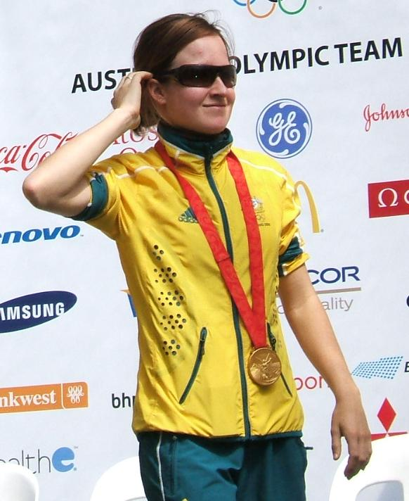 Elise Rechichi at the 2008 Olympic homecoming parade in Adelaide